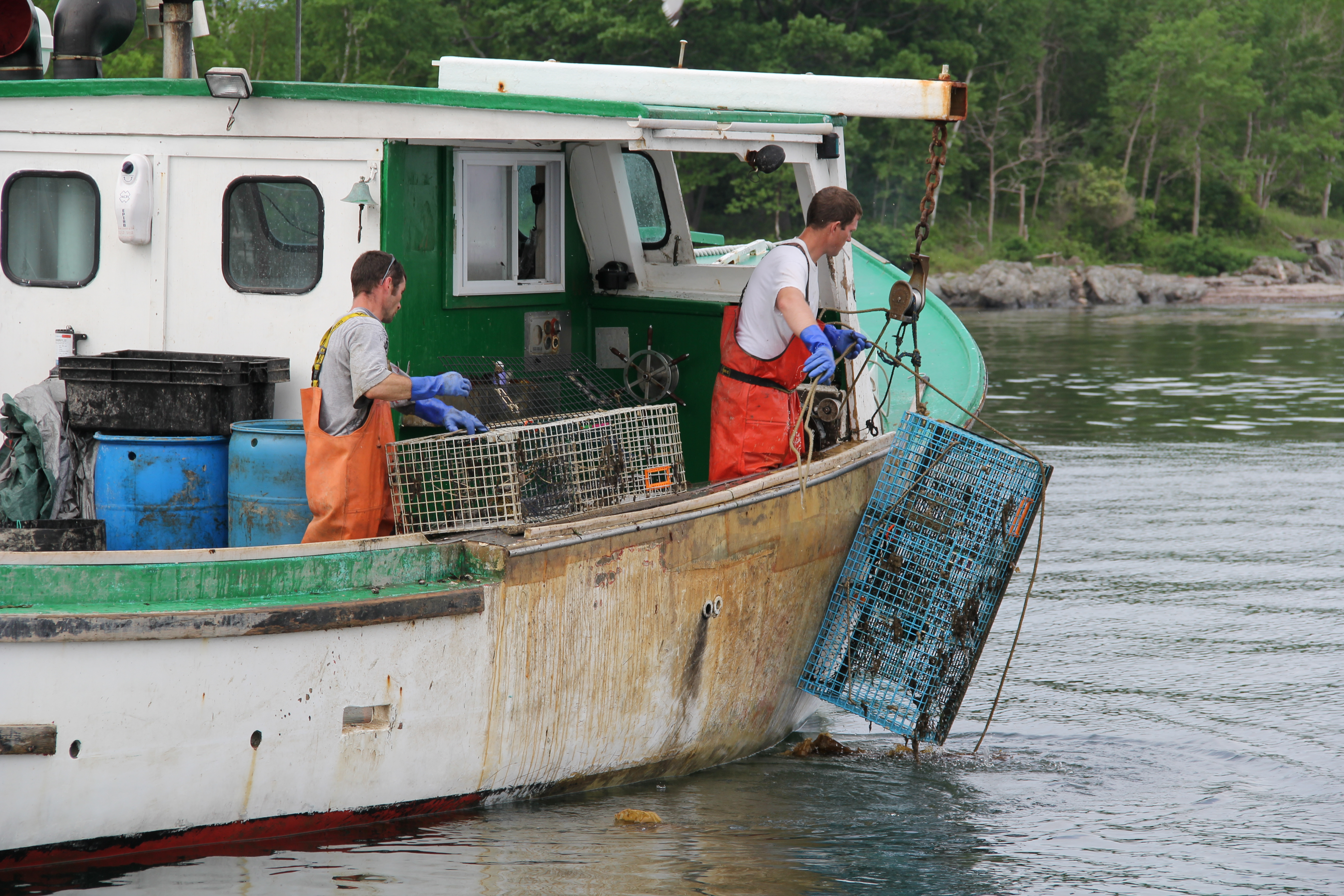 Lobster traps, Portland ME